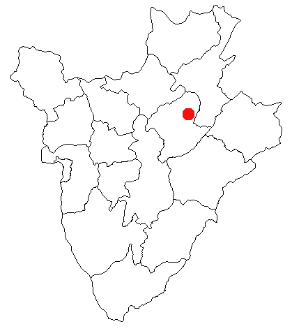 Karuzi, Burundi Location Map; created with the GIMP. Made by User:Acntx.